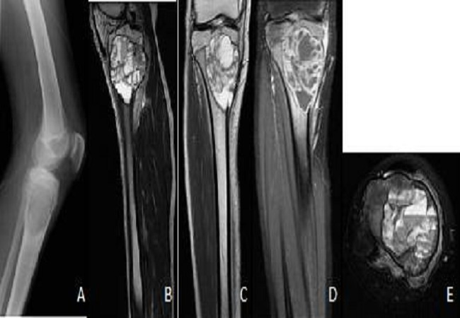 Radiography (A) showing an osteolytic lesion oval metaphyseal tibial very limited. Cuts MRI sagittal T1-weighted (B), coronal T2 (C) and T1 post contrast (D) and axial T2 FATSAT (E) showing the partitions after intralesional contrast enhanced liquid level typical of an aneurysmal cyst.